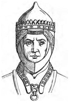 Drawing from effigy, made after Schebbelie's drawing depicted in Gough, Richard, Sepulchral Monuments in Great Britain, vol 2, part 2, p. 132, London, 1796